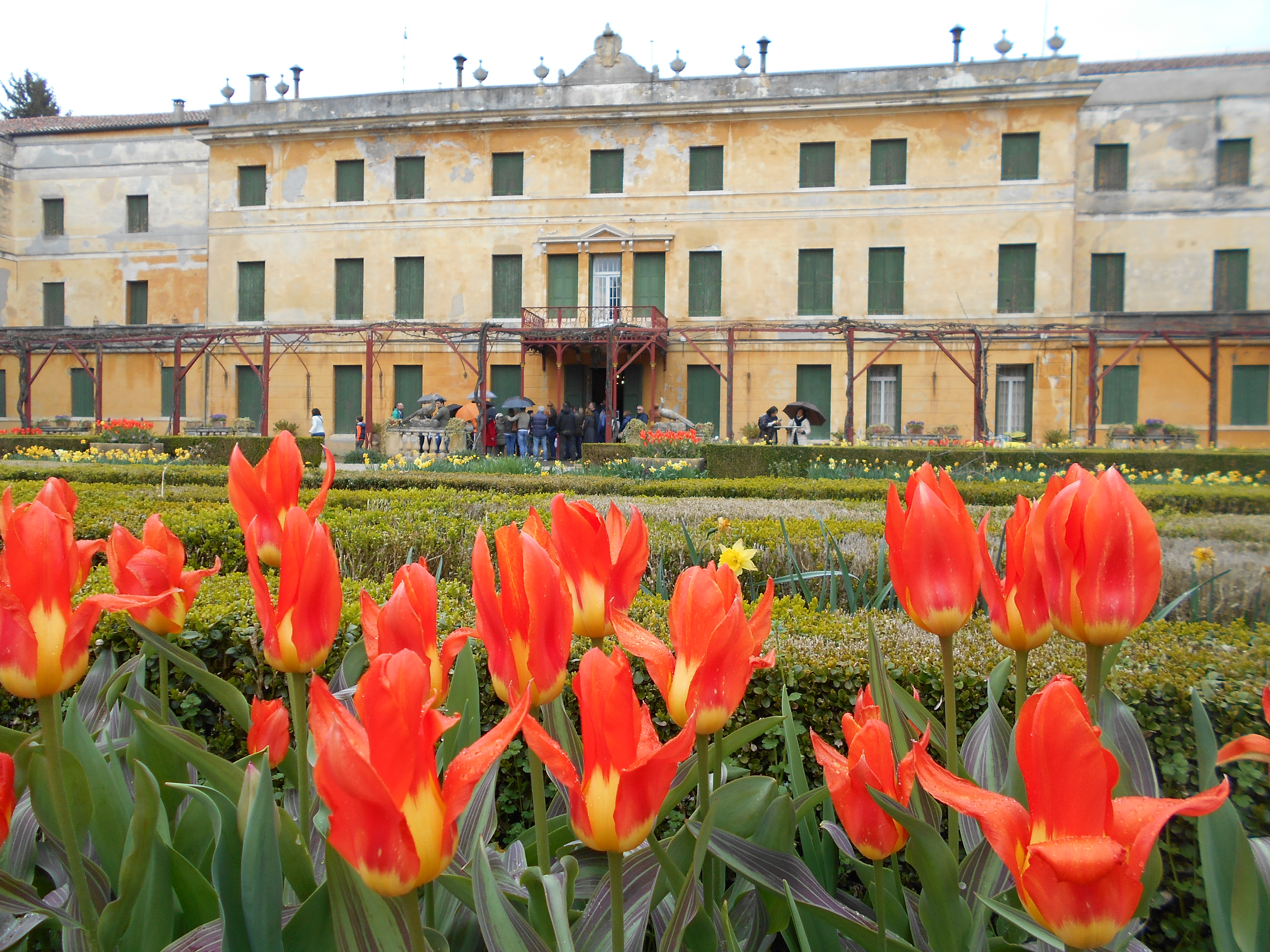 Villa Pisani, Vescovana, Padua